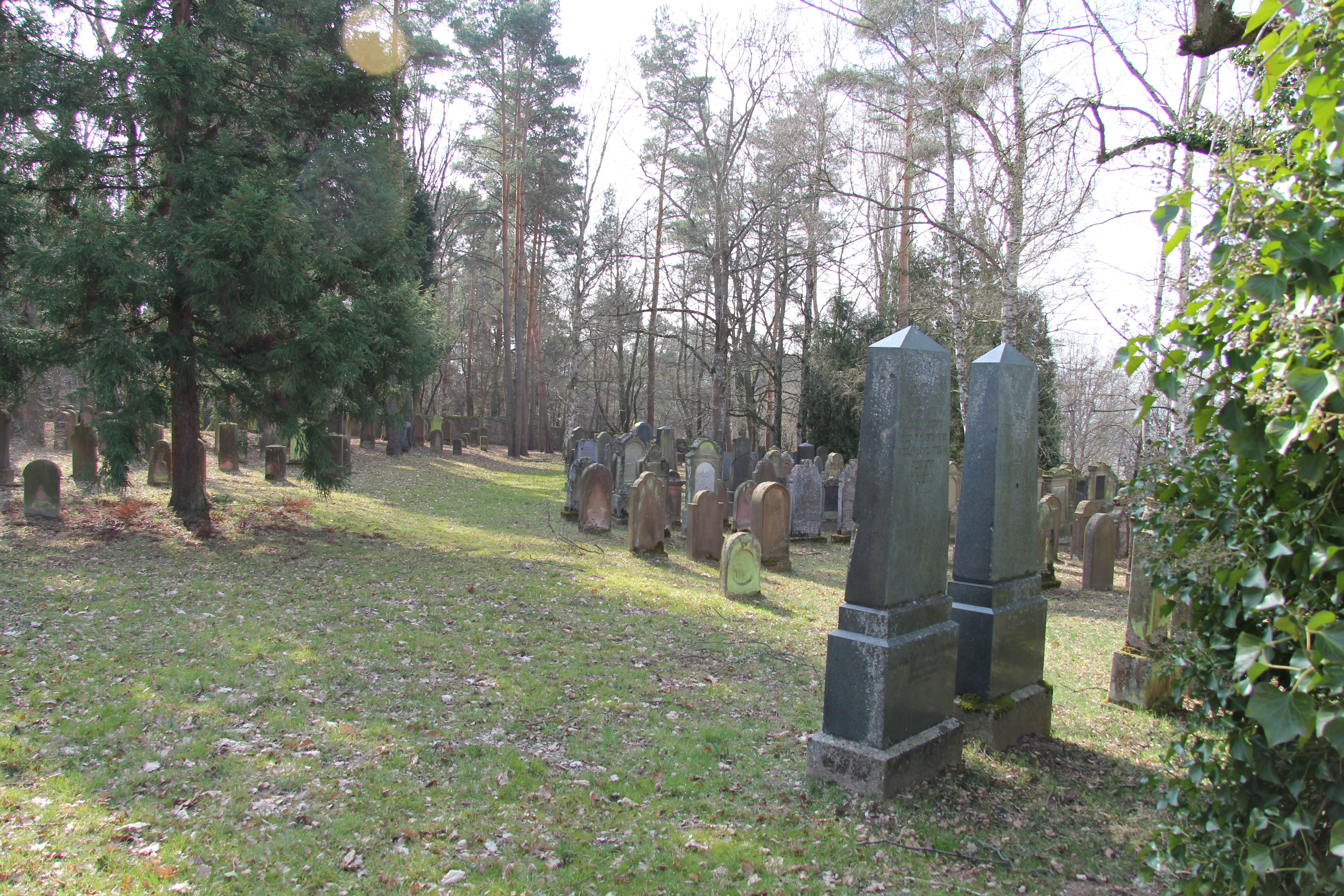 Jewish cemetery in the fields of Schweinheim, part of Aschaffenburg city, Bavaria, Germany